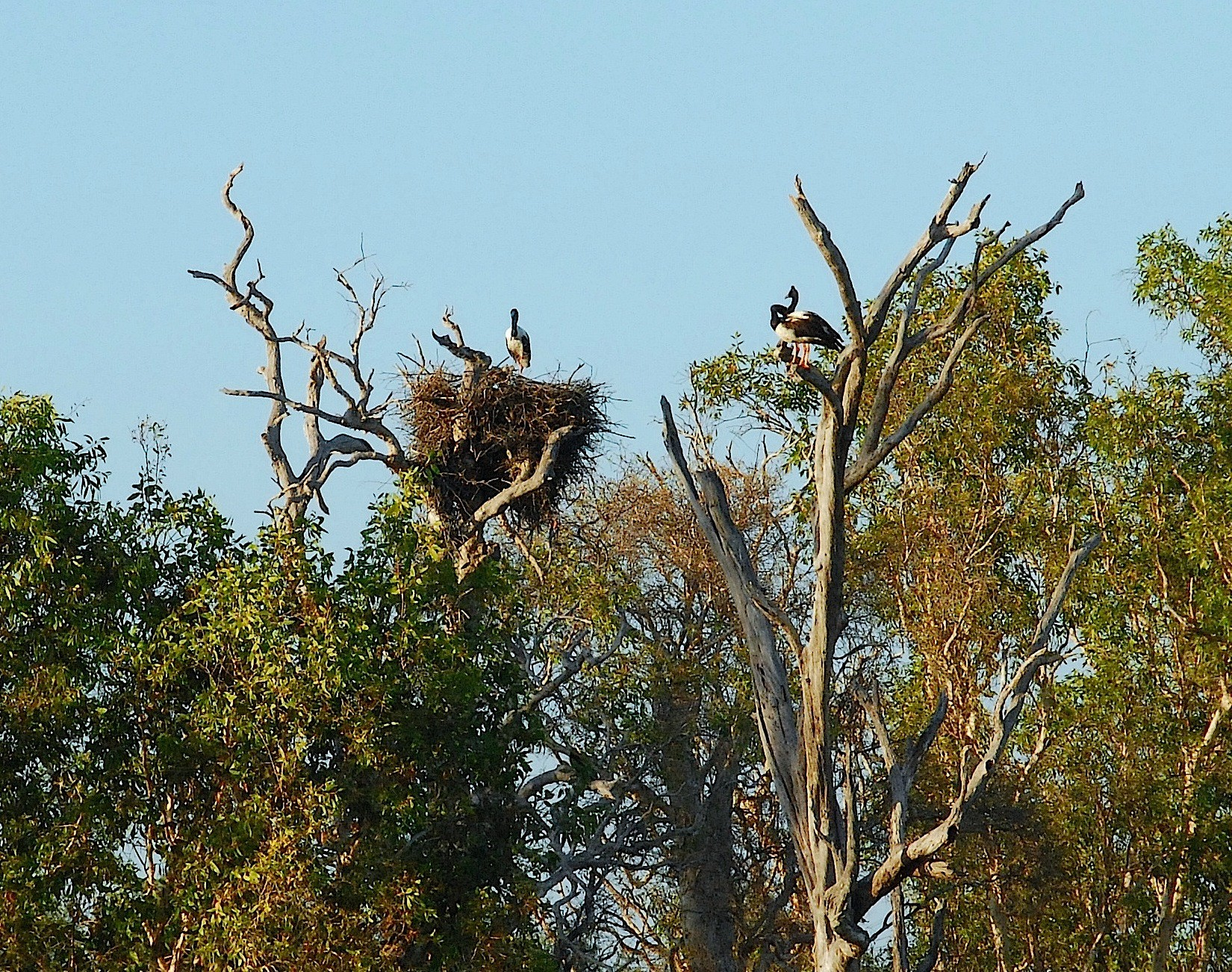 Magpie Goose Kakadu, Australia